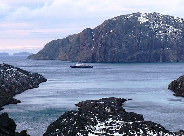 Killinek Island, Torngat Mountains National Park Reserve, Labrador, Canada